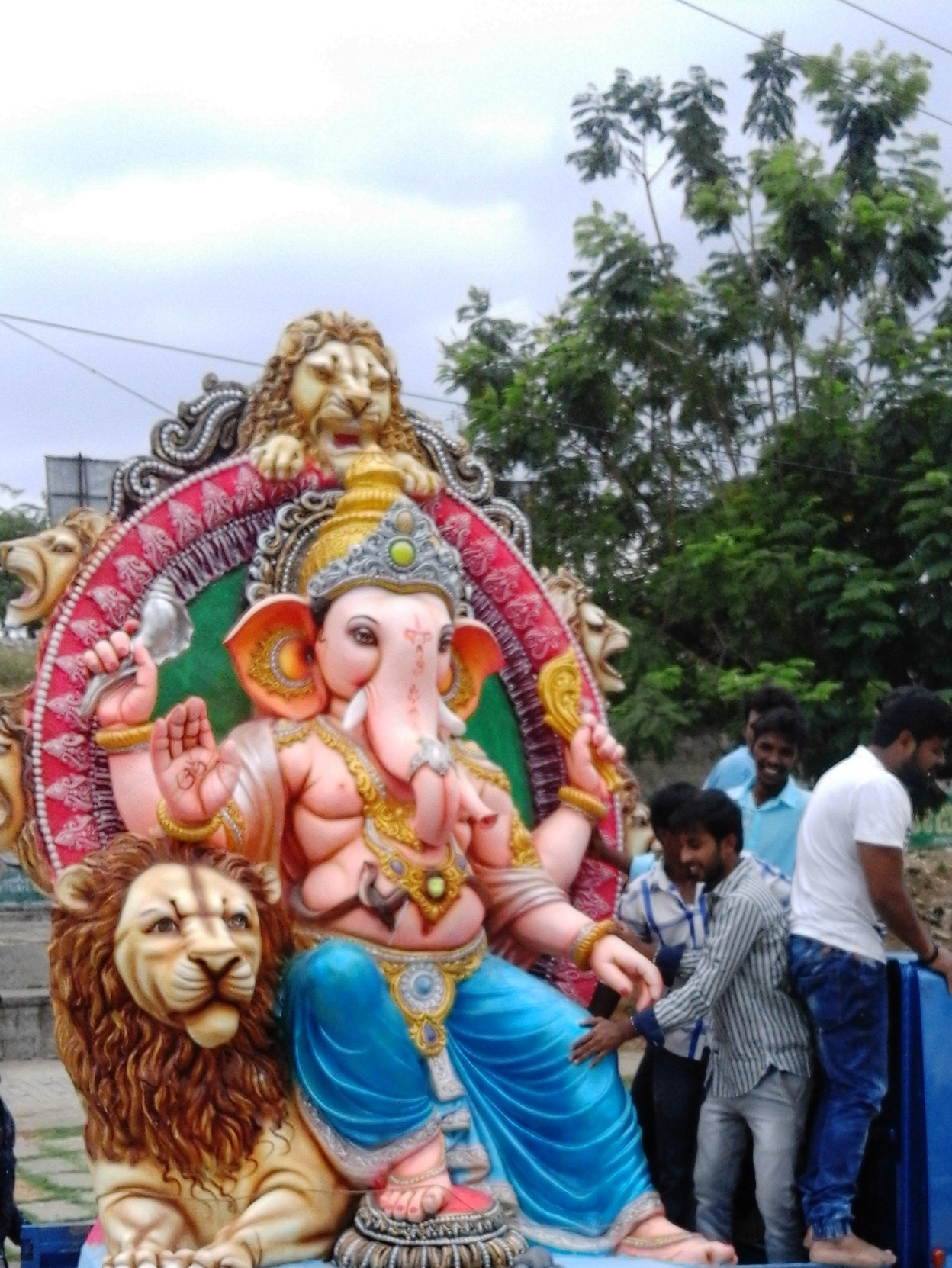 K.G.Koppal, Mysore city, Karnataka state, India.